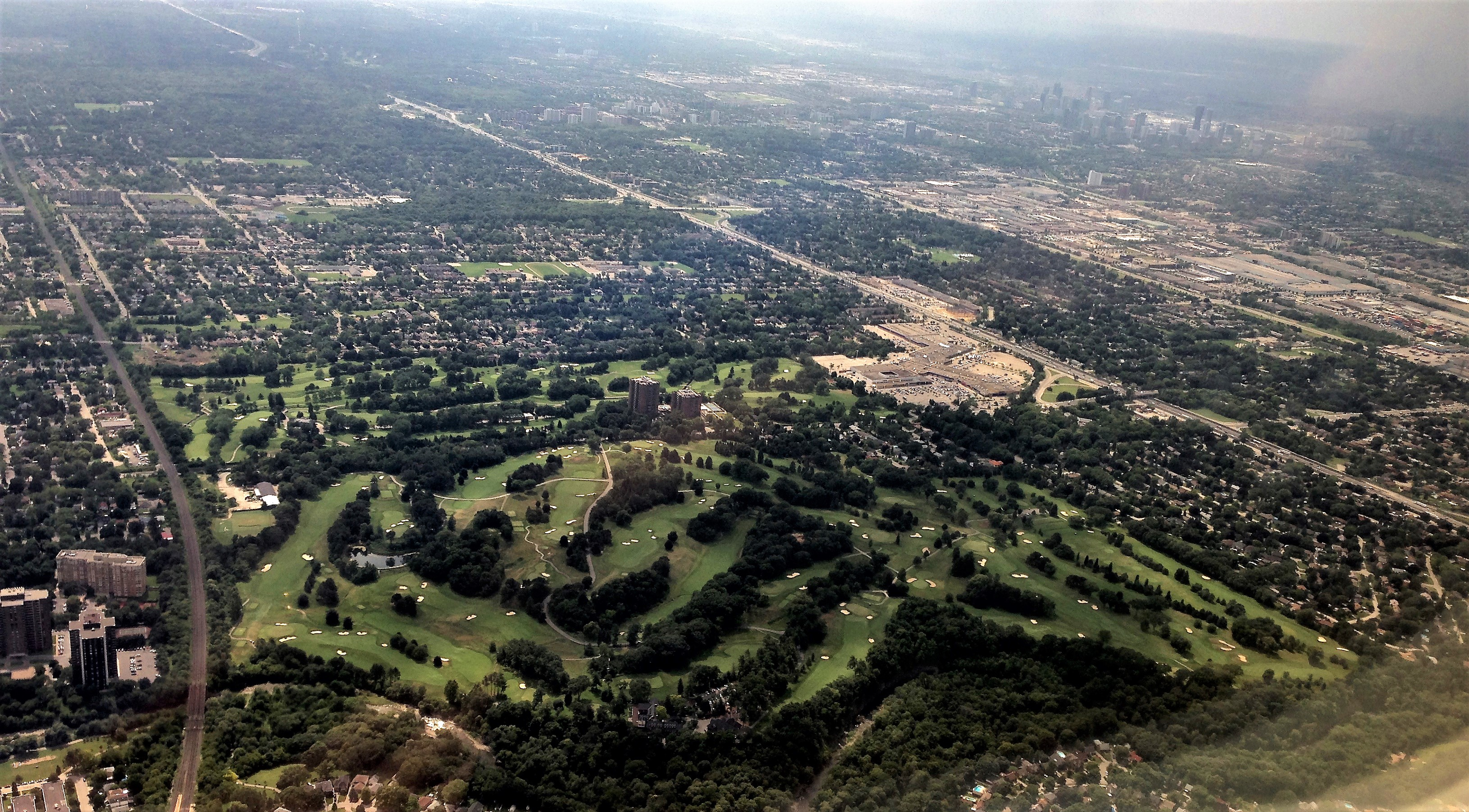 Aerial view of Toronto Golf Club, looking southwest.